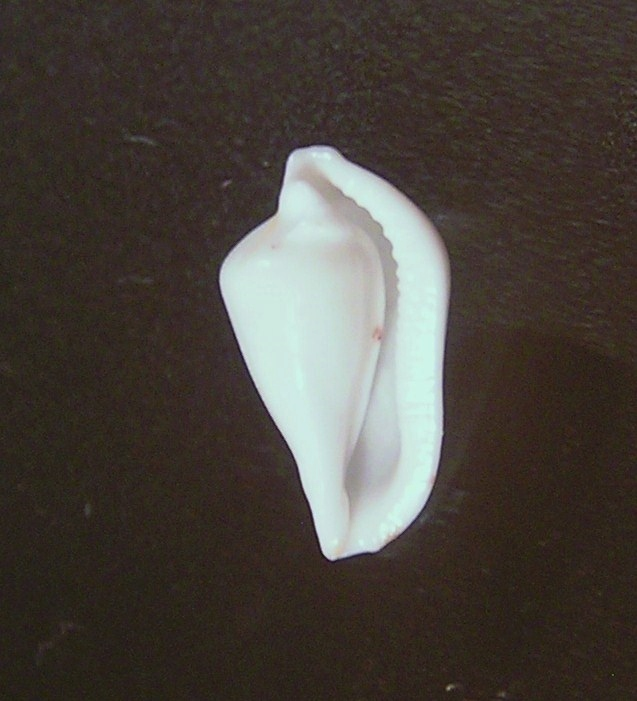 Dentiovula rutherfordiana (Cate, 1973), family Ovulidae; Australia, New Queensland